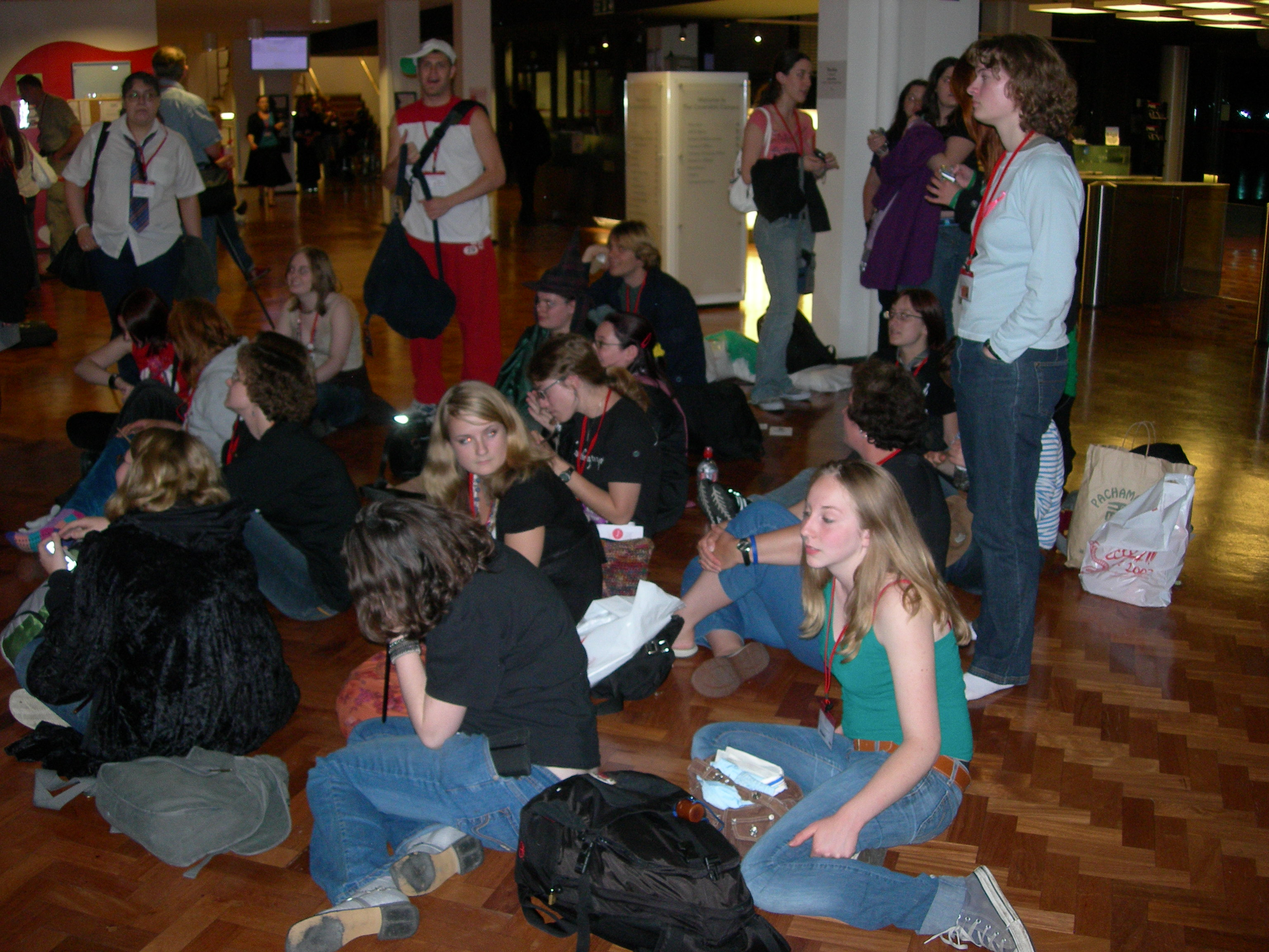 Attendees of Sectus conference await the midnight release of Harry Potter and the Deathly Hallows, for which they have pre-reserved copies.